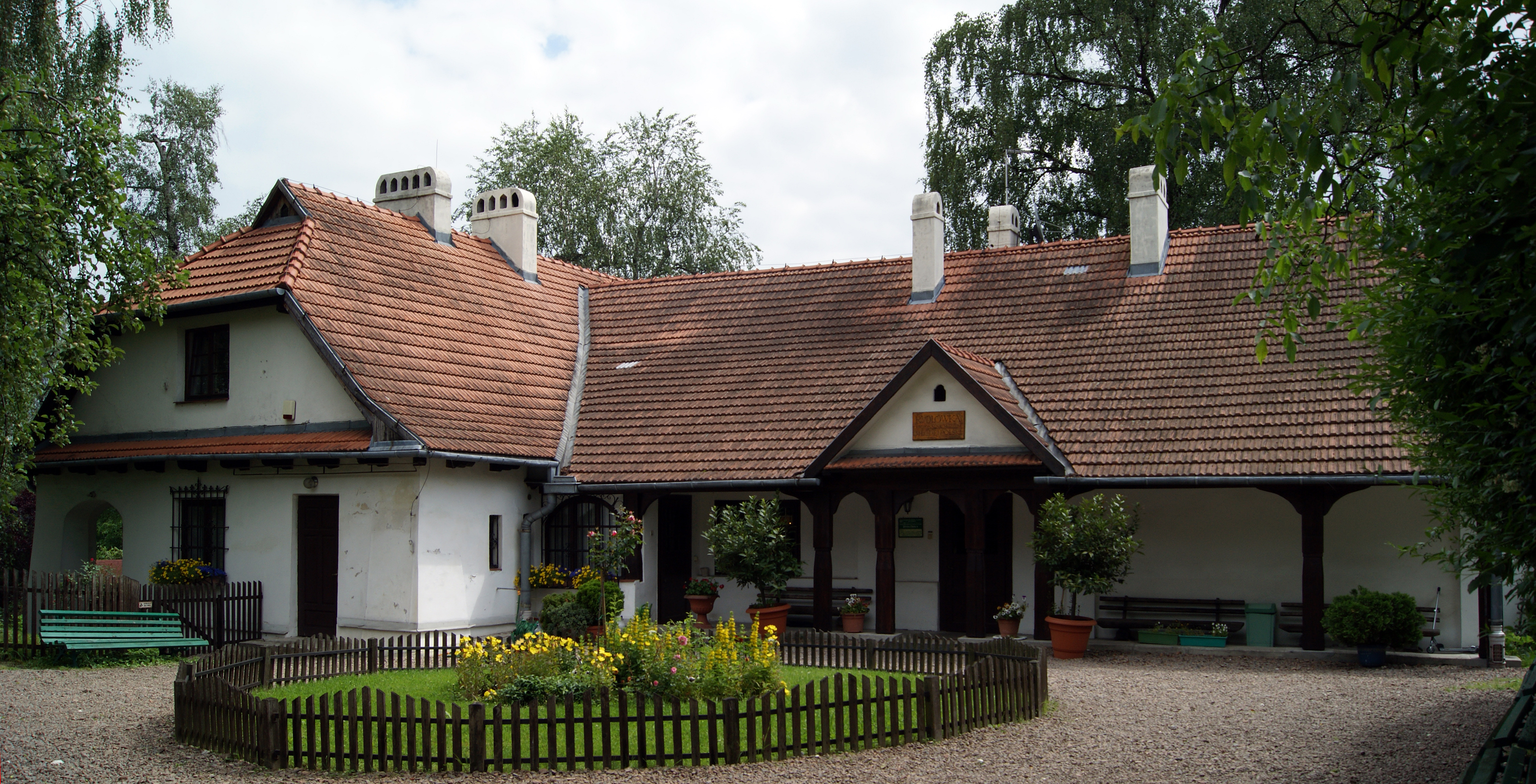 Rydlowka manor house, 28 Tetmajera street, Bronowice Małe, Krakow, Poland